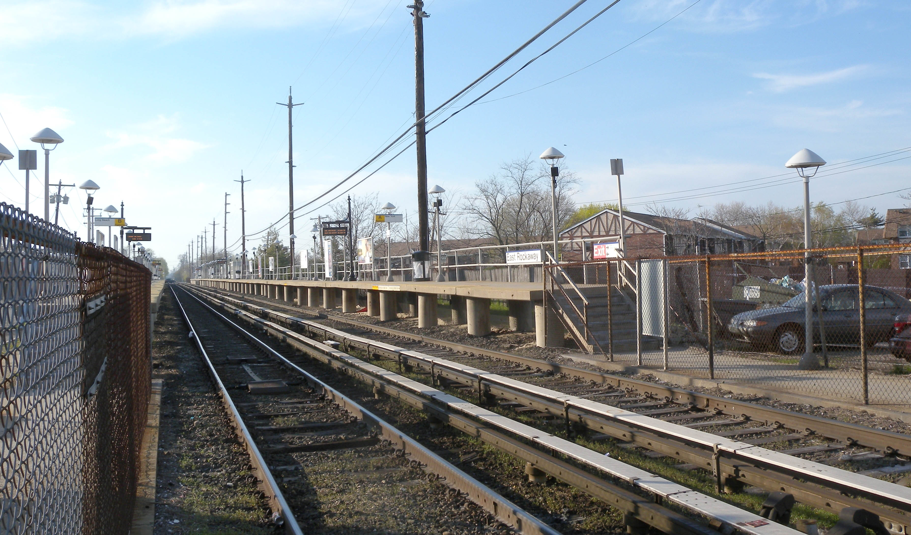 Looking northwest at East Rockaway (LIRR station) on a mostly sunny afternoon.